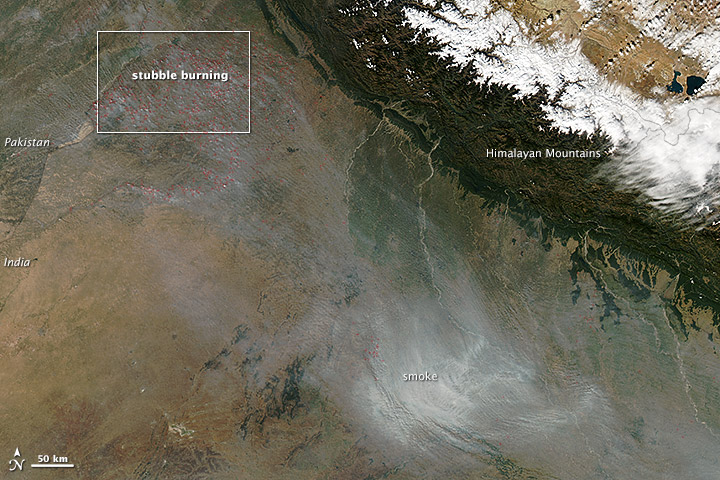 Credits: NASA image courtesy Jeff Schmaltz, LANCE MODIS Rapid Response Team at NASA GSFC. Caption by Adam Voiland. According to NASA: The Indian state of Punjab has two growing seasons: one from May to September and another from November to April. In November, farmers in Punjab typically sow crops such as wheat and vegetables. They often set fire to their fields to clear them before planting, a practice known as stubble burning. When the Moderate Resolution Imaging Spectroradiometer (MODIS) on NASA’s Aqua satellite passed over the region on November 12, 2013, numerous such fires were burning. In the image above, red outlines show the approximate locations of active burning. Fields generally appear brown. See the lower image for a closer view of the fires. Although the smoke appeared to originate primarily from the agricultural fires, other factors such as urban and industrial smog may have contributed. According to a study published in Environmental Pollution, Punjab farmers most often burn stubble from rice plants in November. A smoke plume extended far to the southeast, obscuring the satellite’s view of cities in Uttar Pradesh such as Lucknow and Kanpur. Smoke from agricultural burning contains numerous substances that can harm human health, including carbon monoxide, nitrogen oxides, and particulate matter. On November 9, 2013, the Times of India reported that smoke was heavy enough in Chandigarh to ground a handful of flights. In addition, engineers from the Indian Institute of Technology recently published a report noting that air pollution posed a threat to the Harmandir Sahib (Golden Temple), an historically-significant religious site in Amritsar.